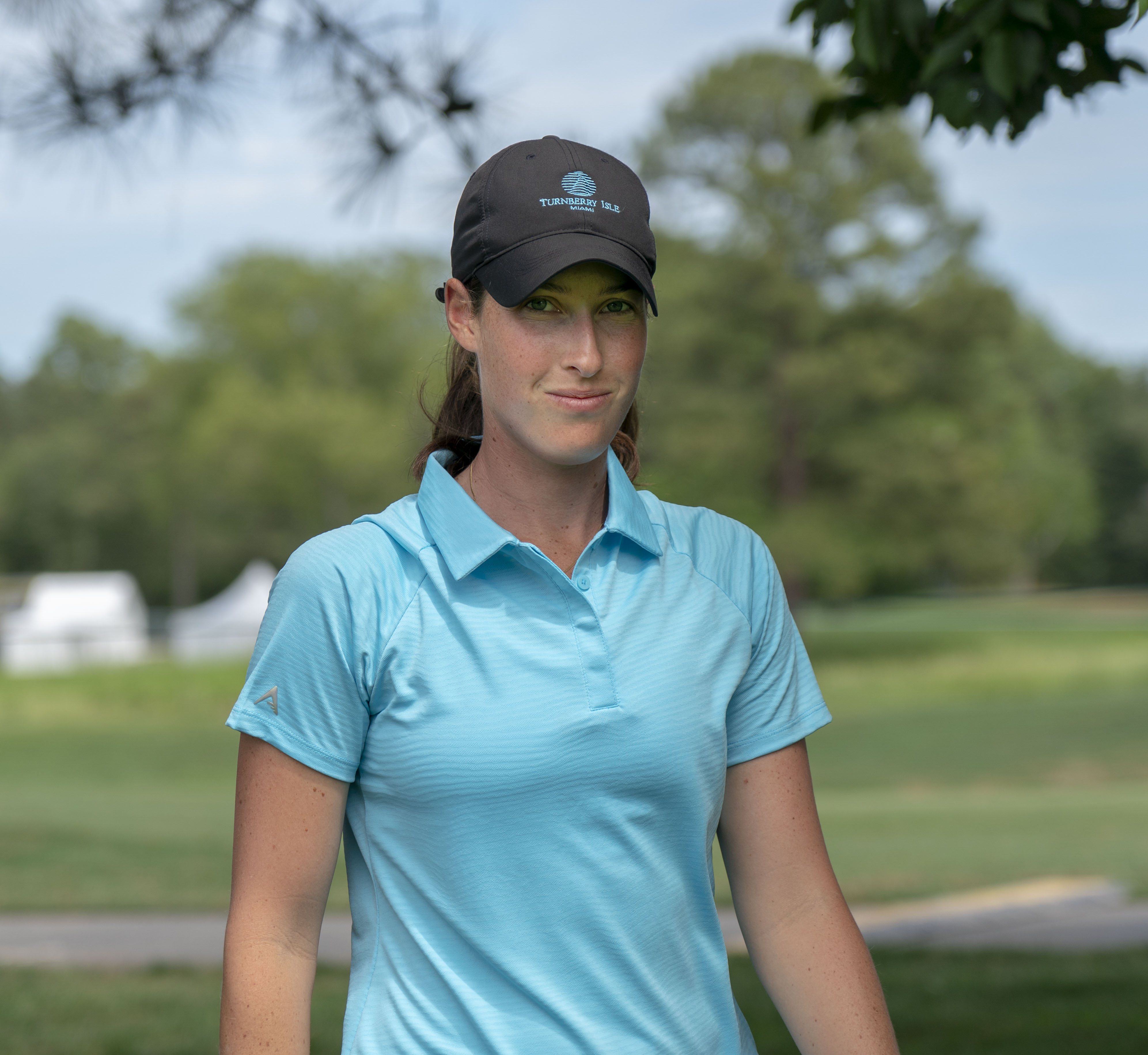 2018 LPGA Kingsmill Tournament